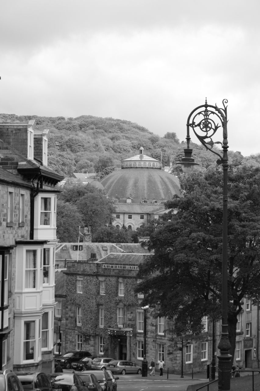 The view from Hall Bank Road looking across to Corbar hill in Buxton. Taking in the Old Hall Hotel and the dome of the former Royal Devonshire Hospital now home to the University of Derby Buxton Campus.View from Hall Bank to Corbar